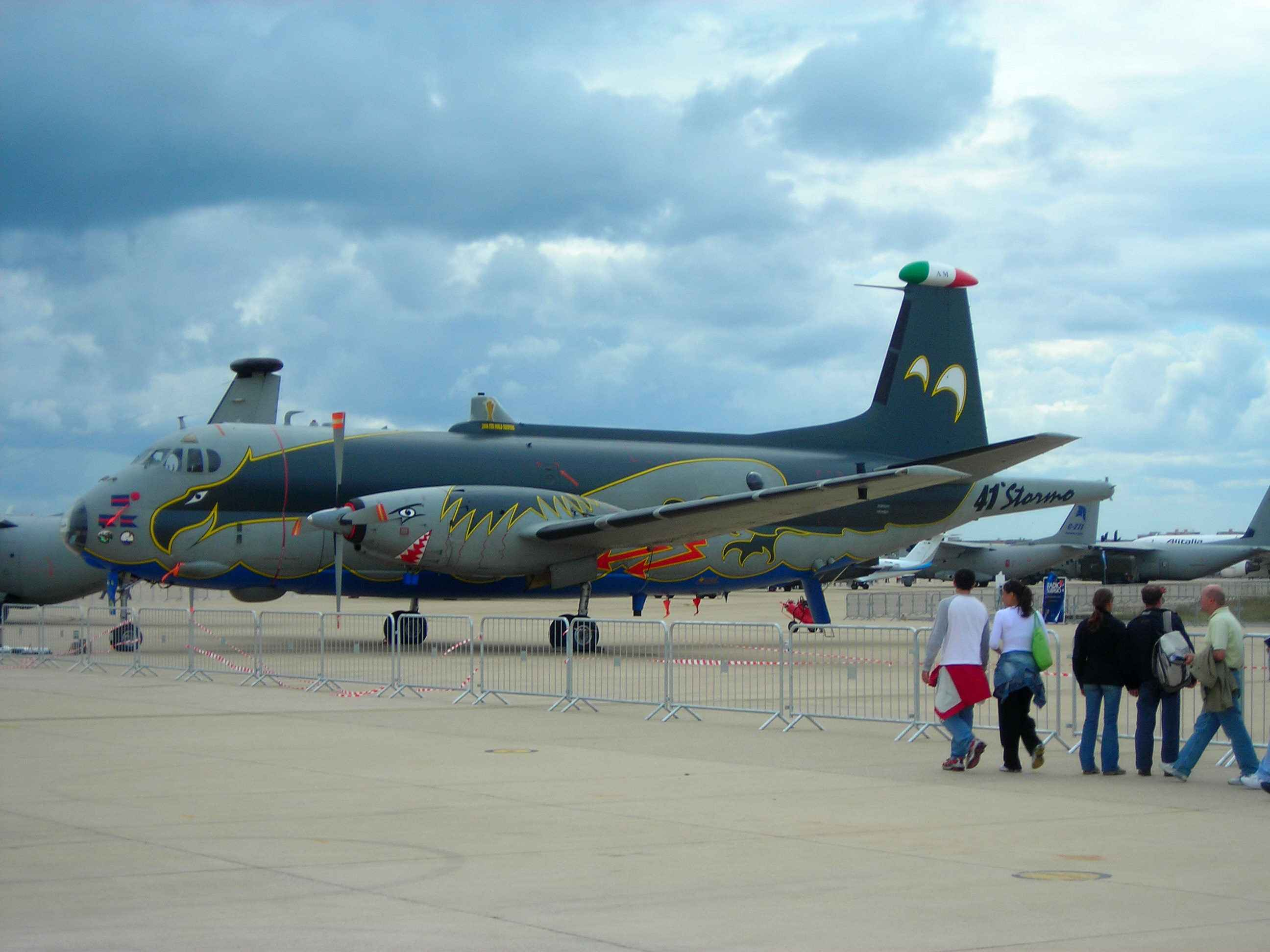 Breguet Atlantic used by 41° Stormo Italian Air Force with special colour scheme. Picture taken during "Giornata Azzurra" 2006 (Italian Air Force airshow) at Pratica di Mare AFB, Italy.